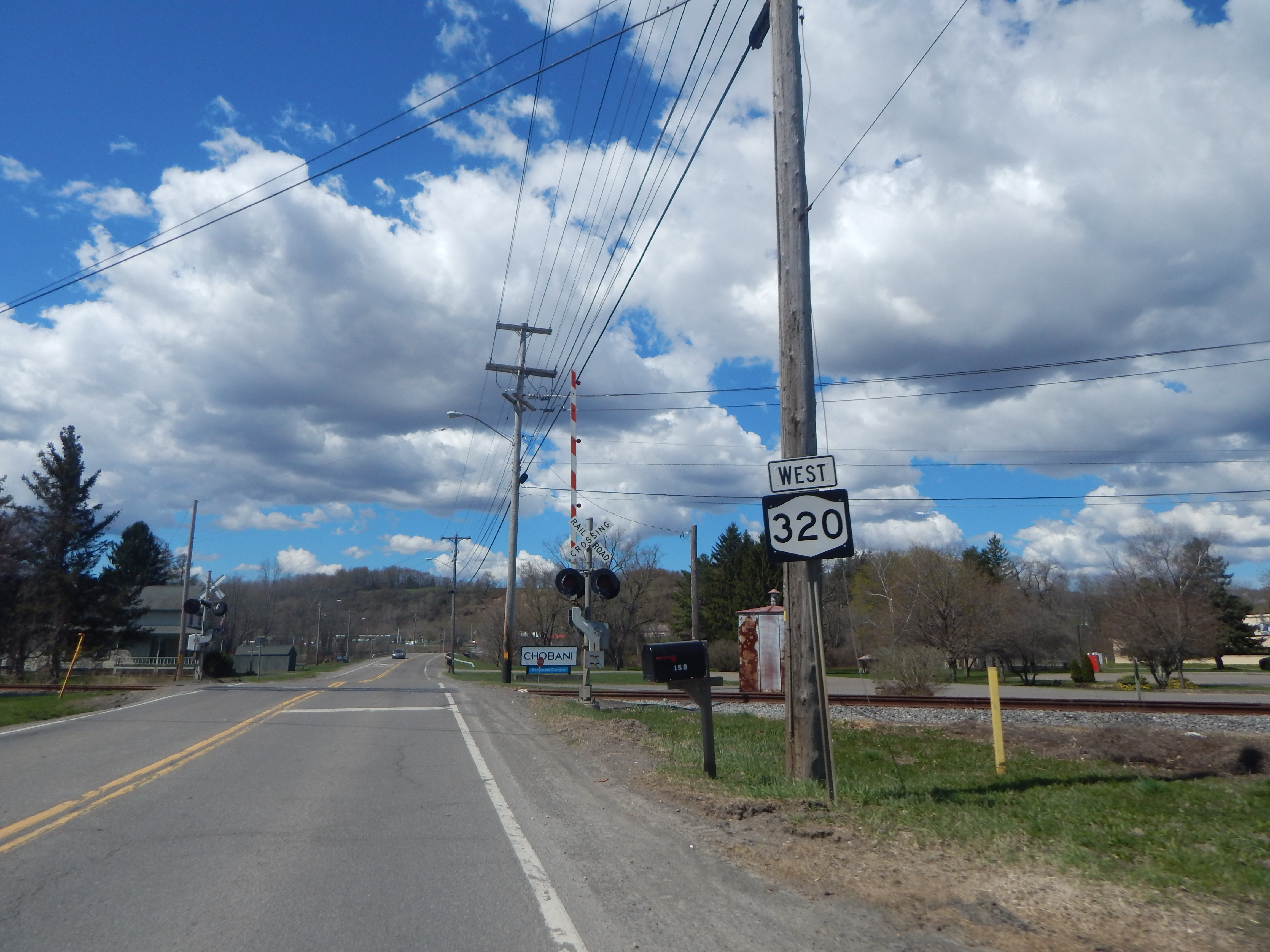 New York State Route 320 at tracks owned by the New York, Susquehanna and Western Railway in Norwich, New York.